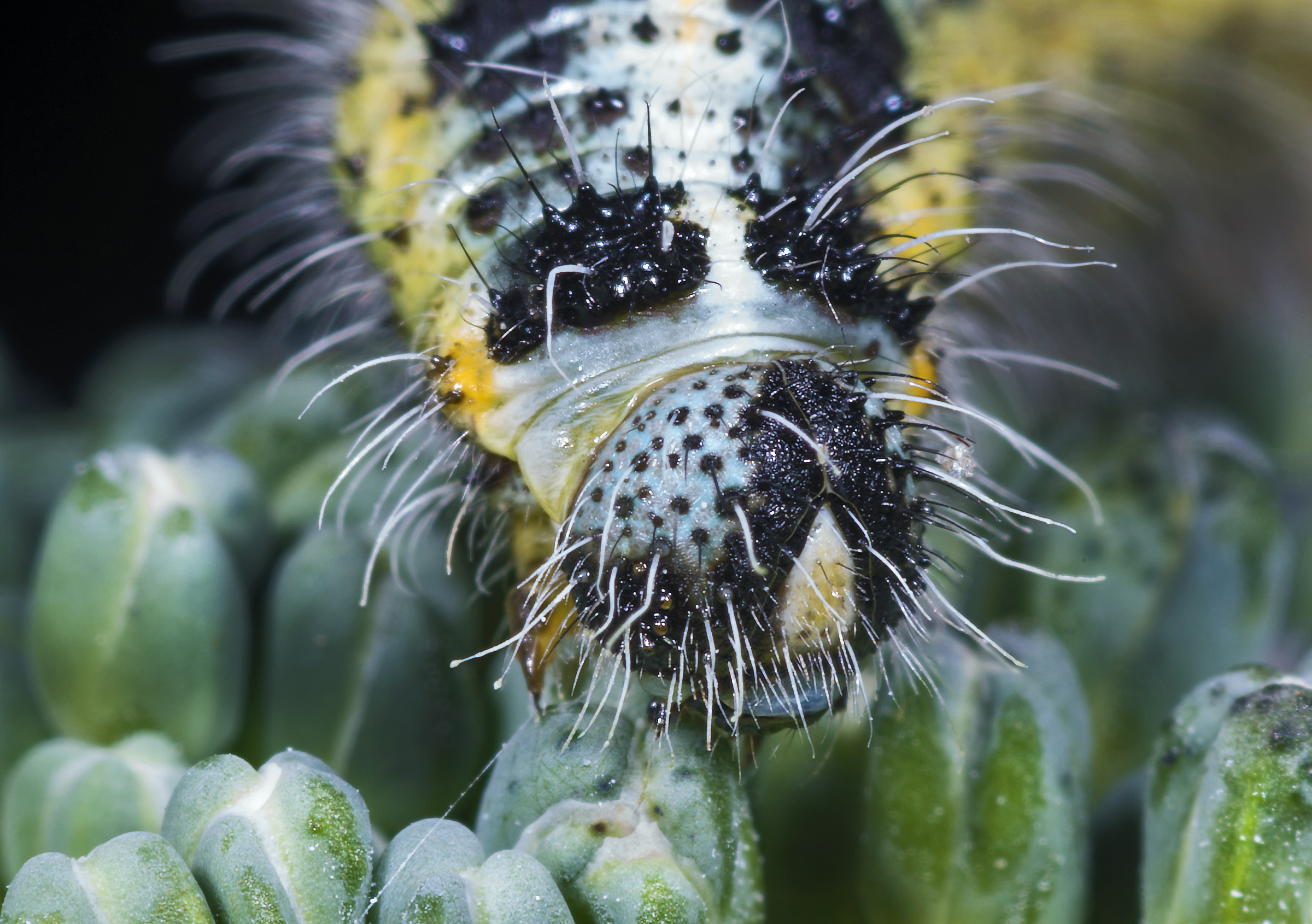 Large white caterpillar portrait.